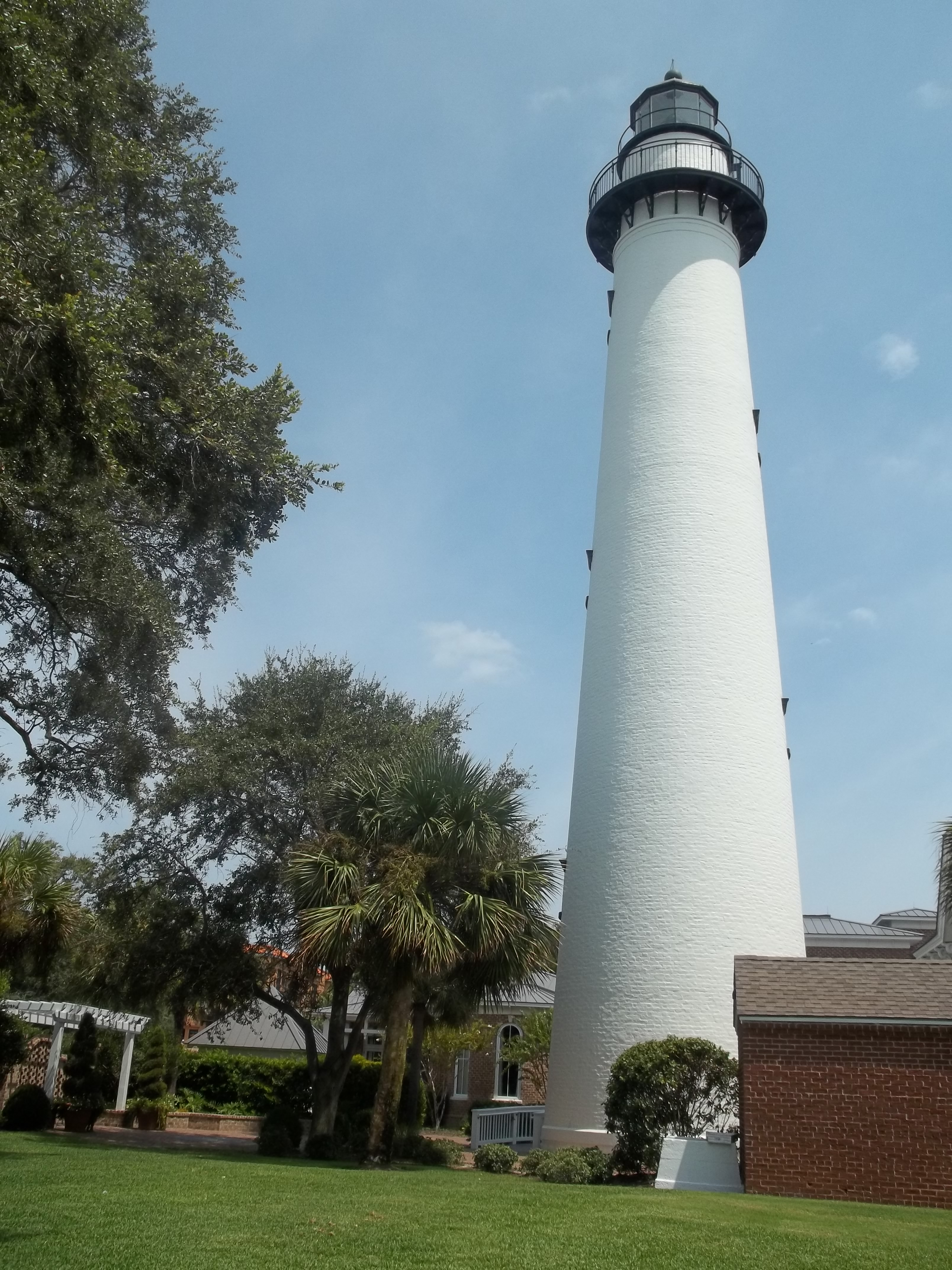 St. Simons, Georgia: St. Simons Island Light